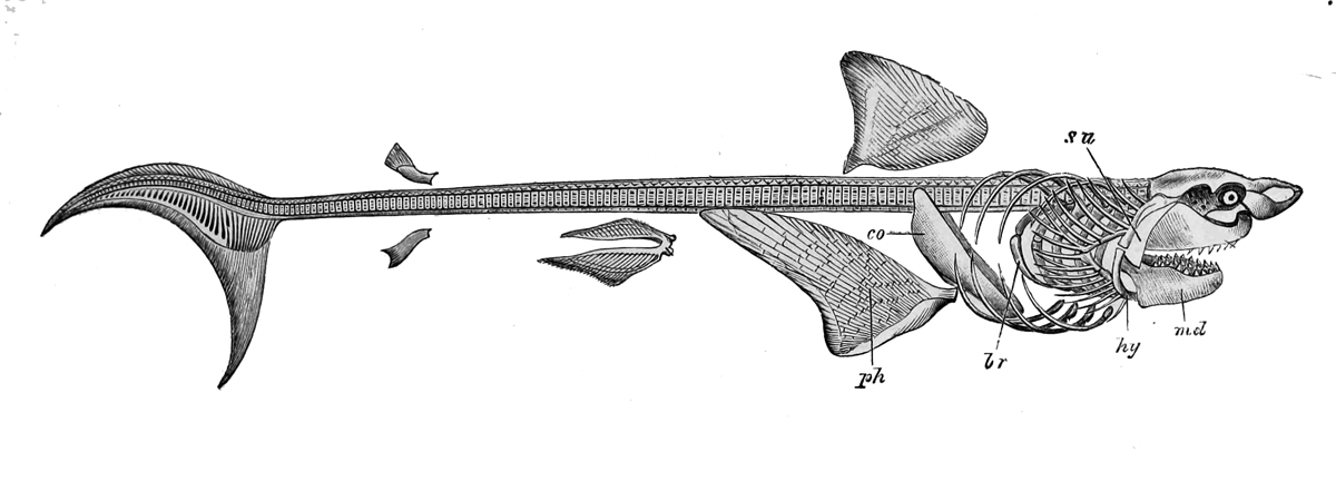 Carcharodon_carcharias's skeleton